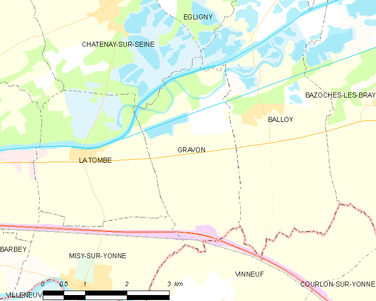 Map of French municipality Gravon